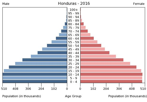 The population pyramid of Honduras illustrates the age and sex structure of population and may provide insights about political and social stability, as well as economic development. The population is distributed along the horizontal axis, with males shown on the left and females on the right. The male and female populations are broken down into 5-year age groups represented as horizontal bars along the vertical axis, with the youngest age groups at the bottom and the oldest at the top. The shape of the population pyramid gradually evolves over time based on fertility, mortality, and international migration trends.